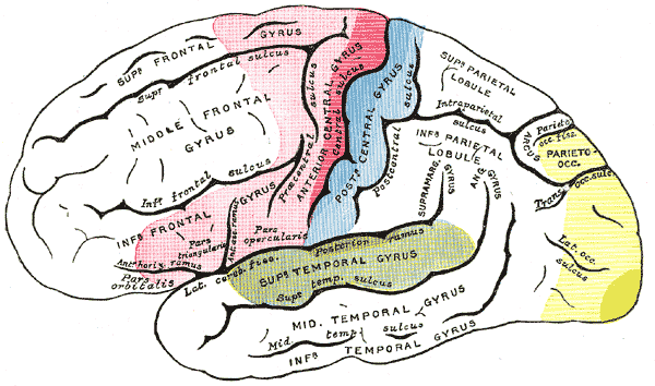 Areas of localization on lateral surface of hemisphere. Motor area in red. Area of general sensations in blue. Auditory area in green. Visula area in yellow. The psychic portions are in lighter tints.